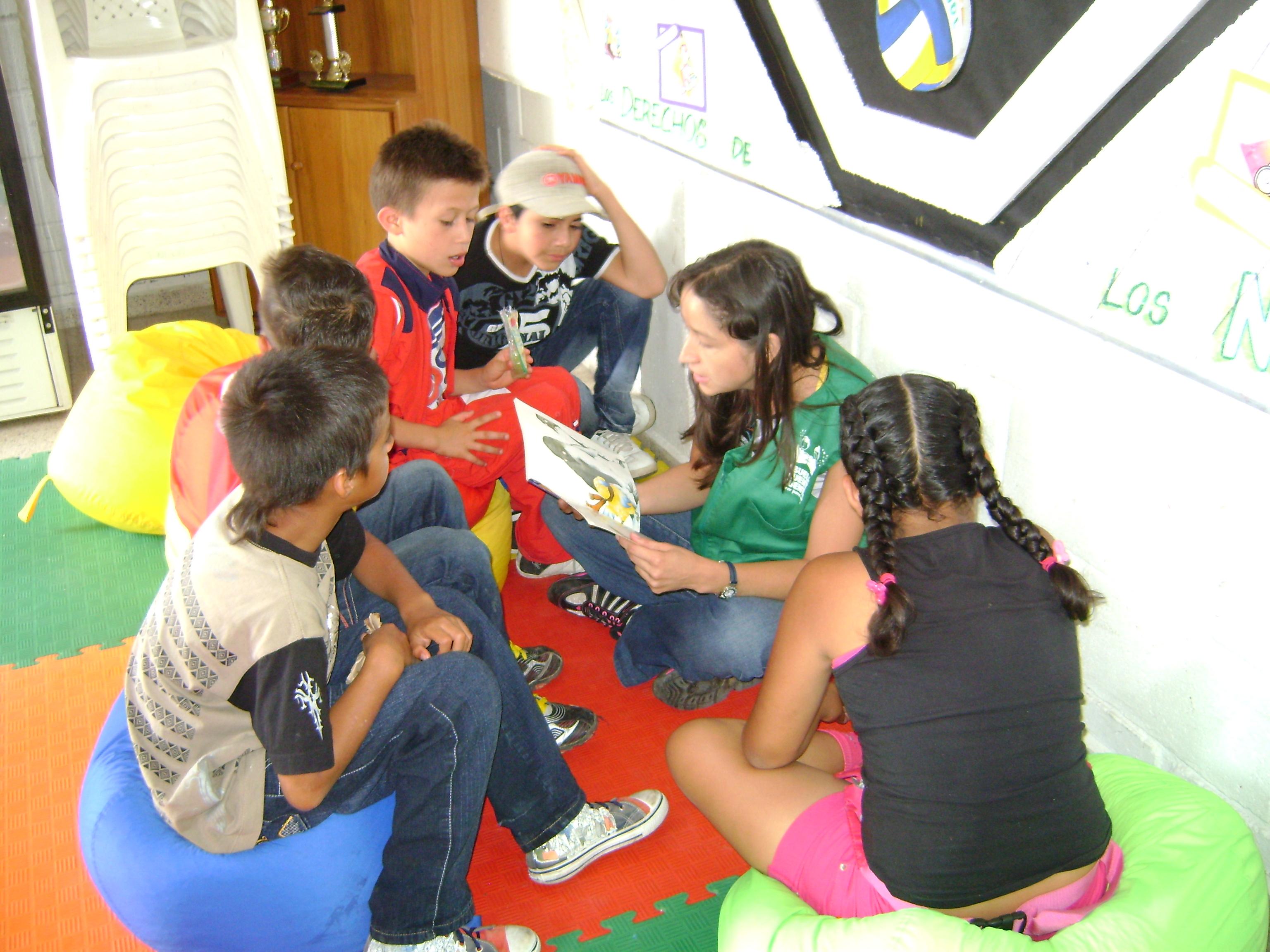 Lectura en un hogar.